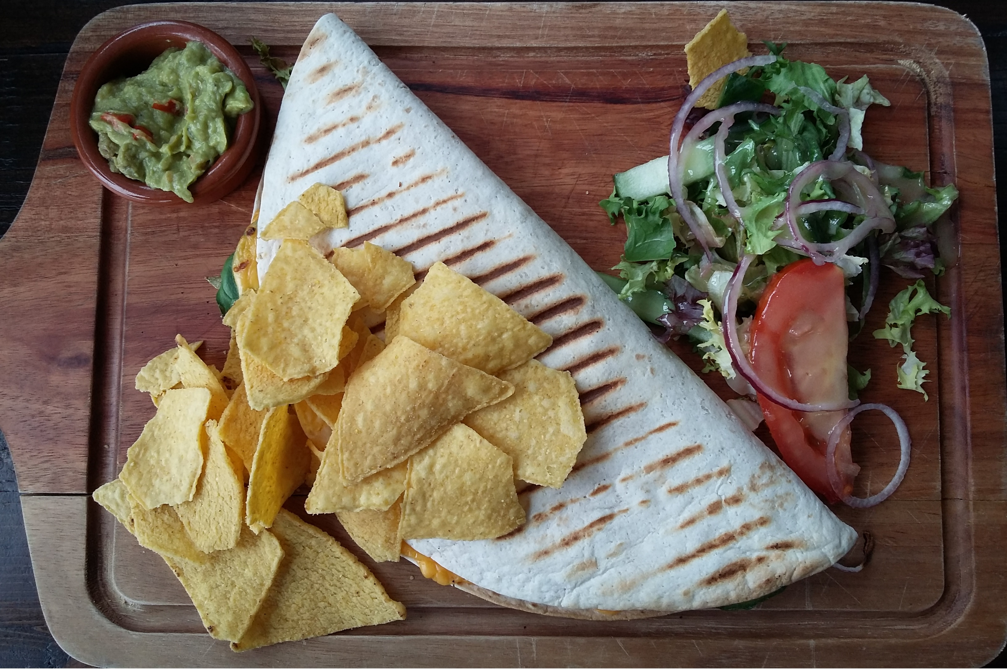 Quesadilla with tortilla chips, guacamole and salad.